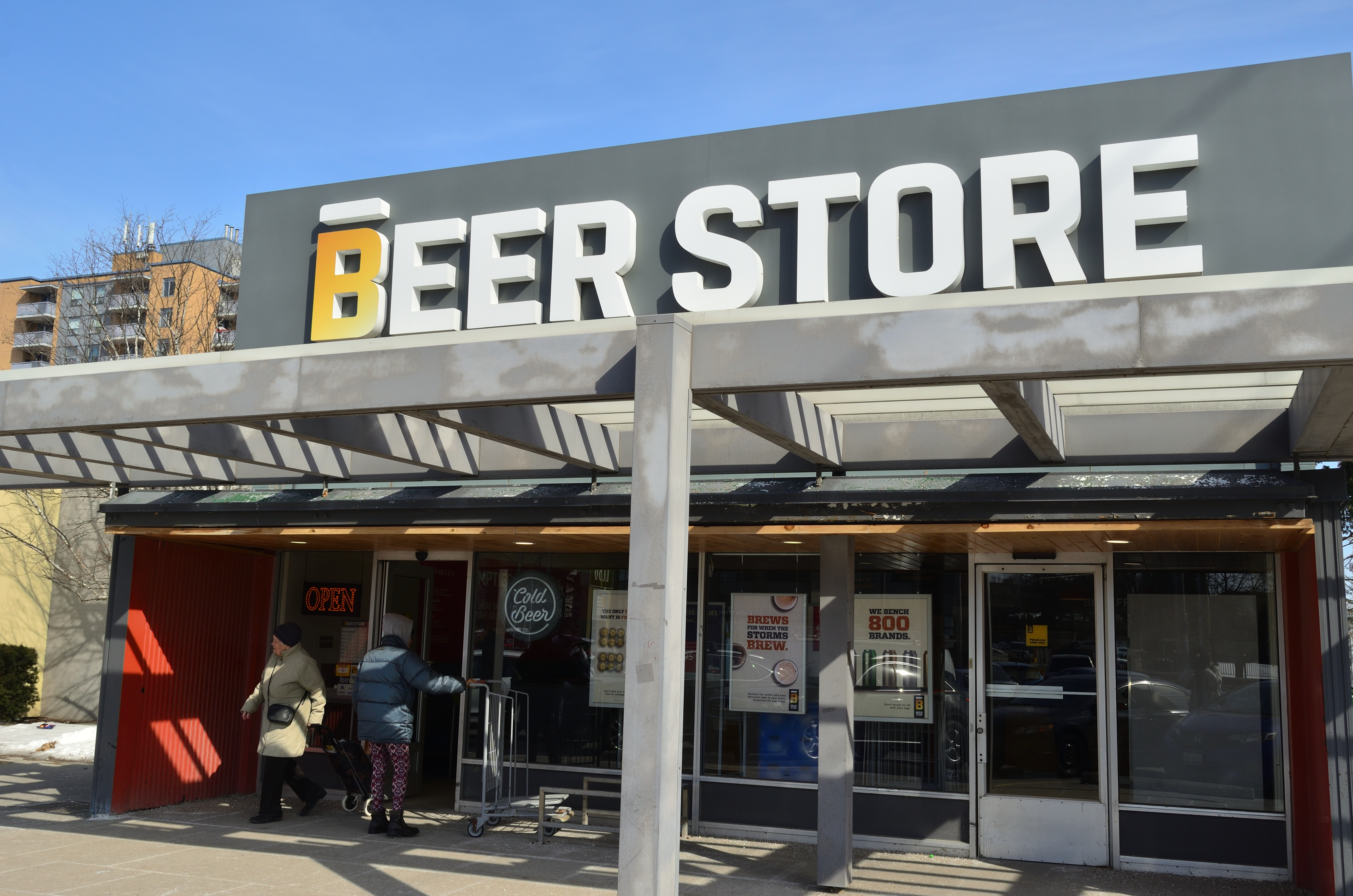 The Beer Store - Address: 10375 Yonge Street N, Richmond Hill, ON L4C 3C2